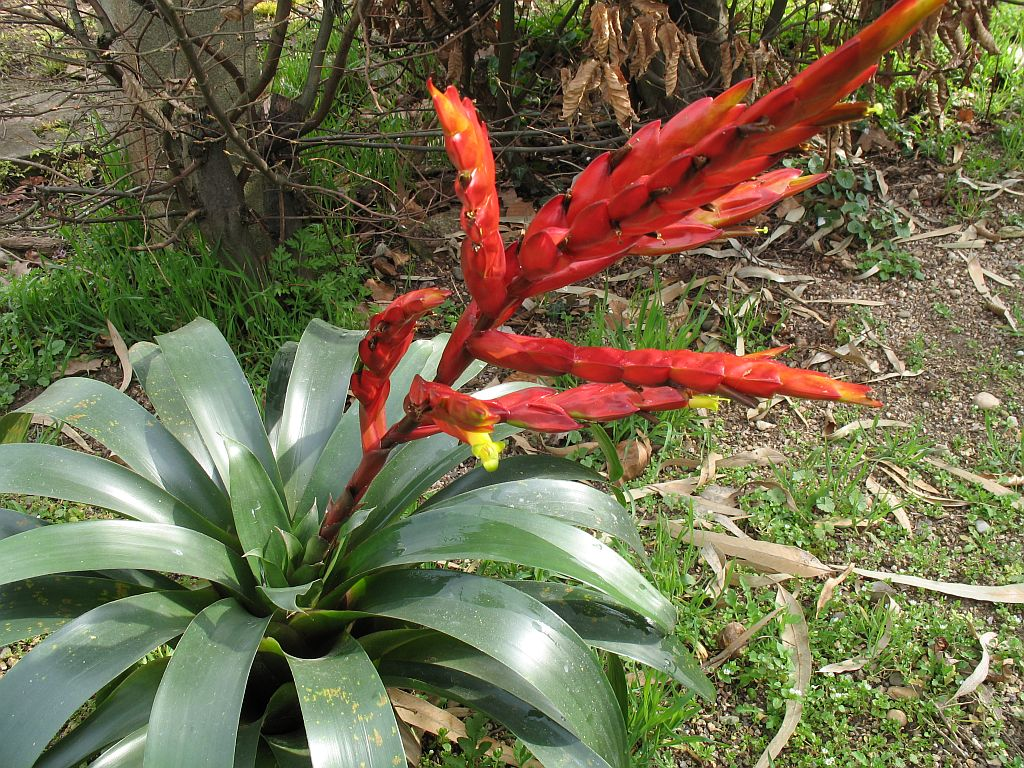 Vriesea oxapampae in cultivation at the Botanical Garden of Heidelberg, Germany.